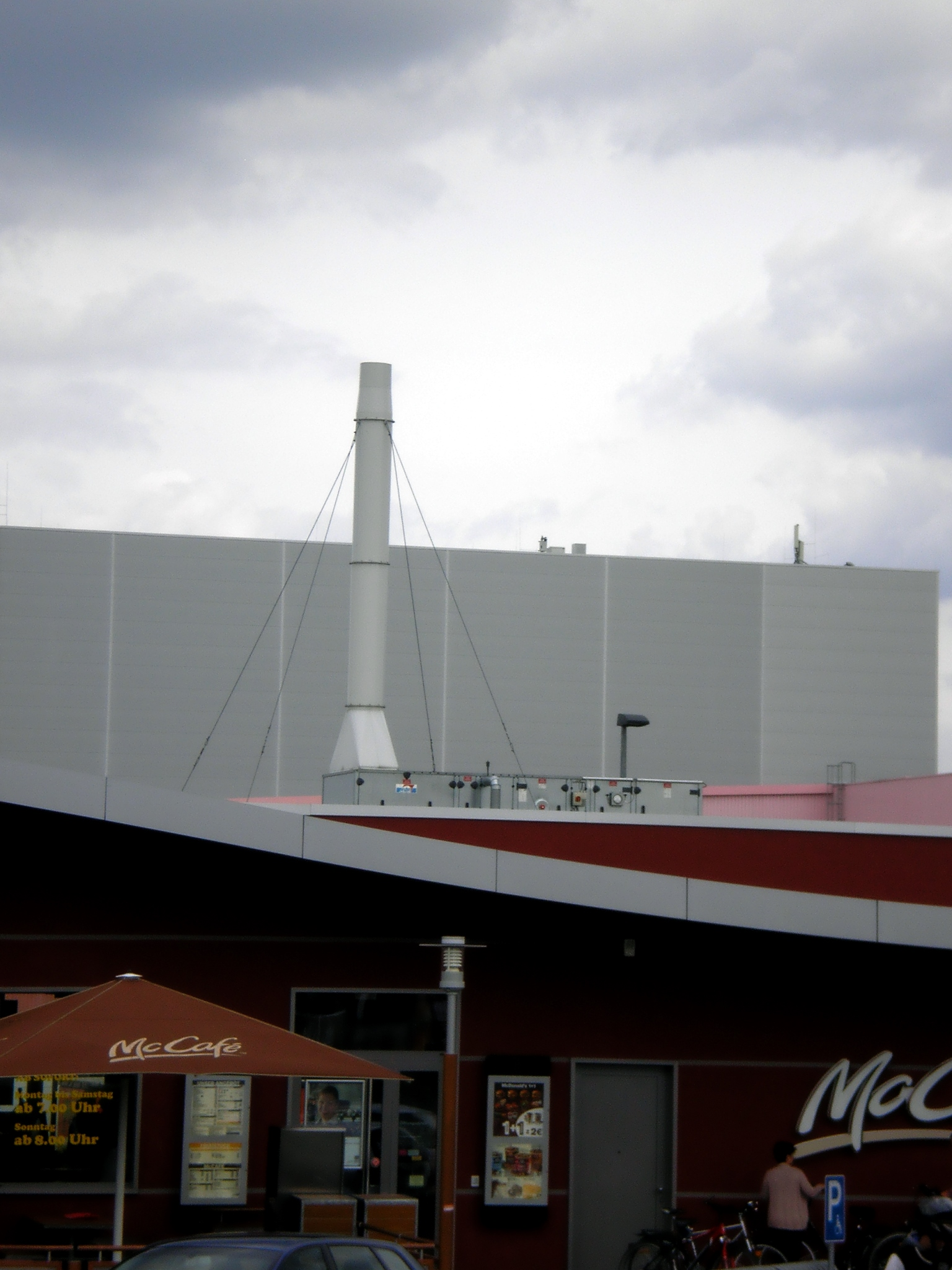 Exhaust air stack at Mc Donalds.